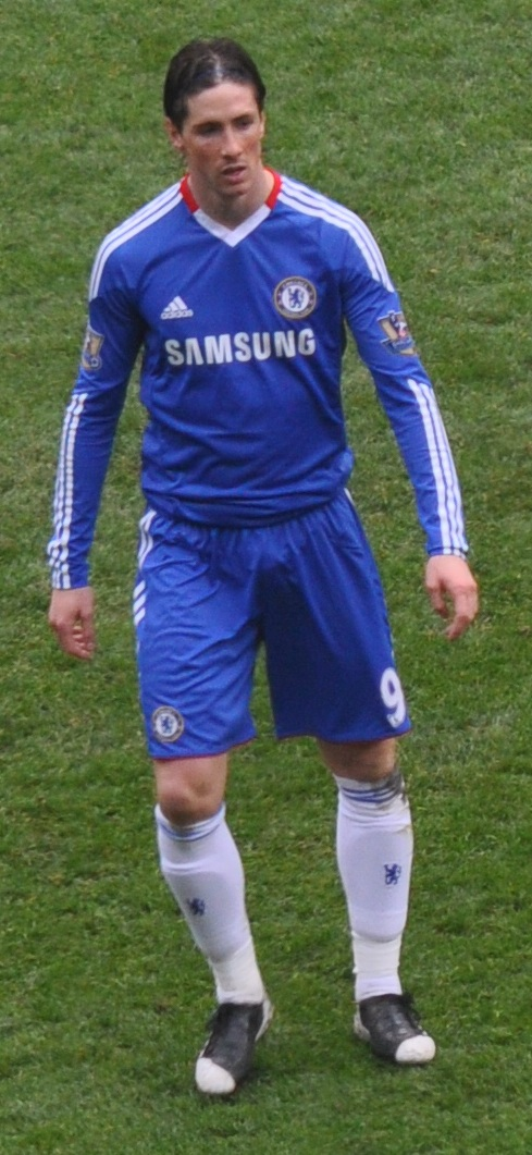 Fernando Torres playing for Chelsea F.C.